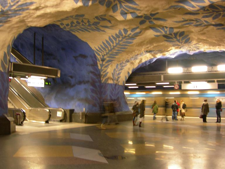 T-Centralen. Subway station in Stockholm.